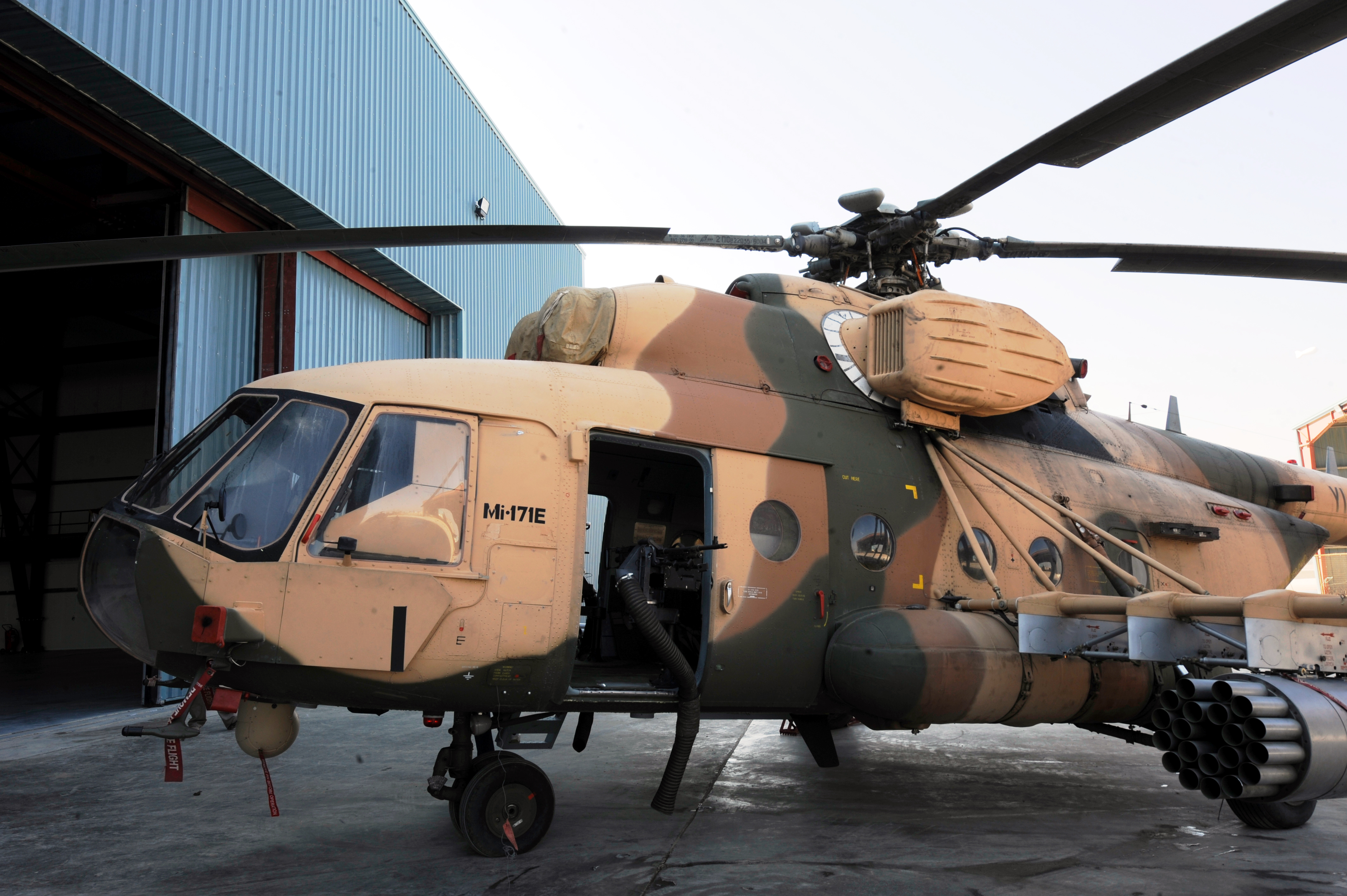 The Iraqi Army Aviation Command accepted delivery of MI-171E helicopters like this one at their headquarters in Taji Jan.16 and 23. These Russian-made aircraft will be used to conduct a variety of missions including counterterrorism and airlift.